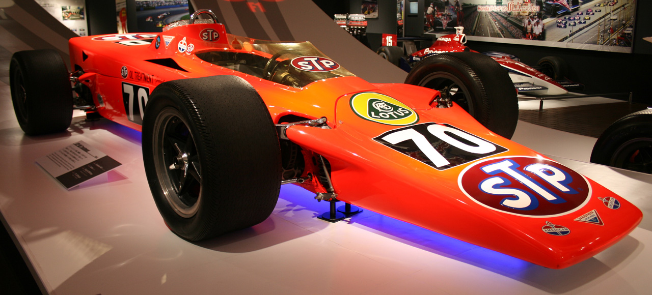 Lotus 56 STP Oil Treatment (Graham Hill) in 1968, from Indianapolis Motor Speedway Hall of Fame Museum.